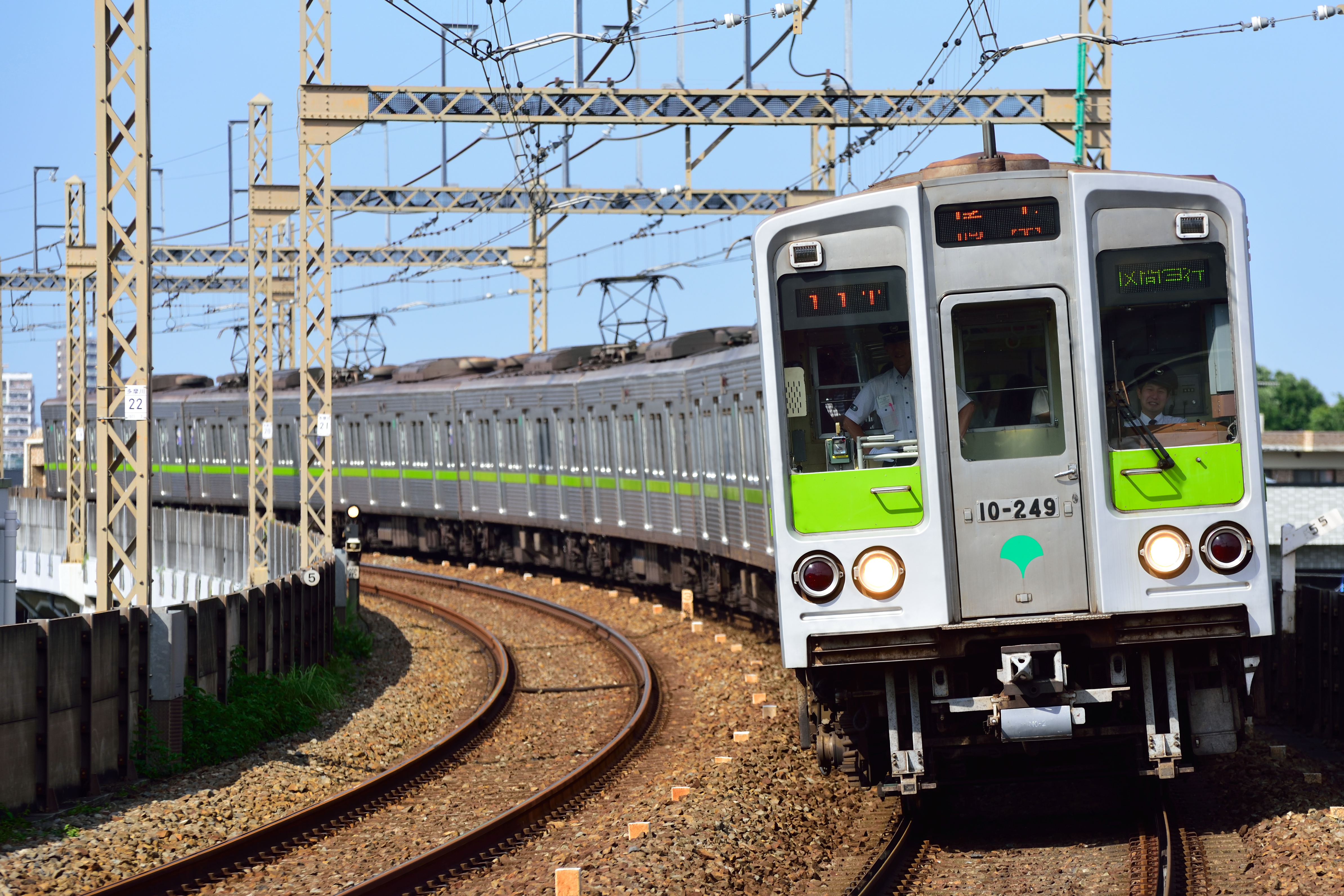 Toei 10-000 series EMU 6th-batch set 10-240 approaching Keio-Inadazutsumi Station on the Keio Sagamihara Line in Kanagawa Prefecture, Japan